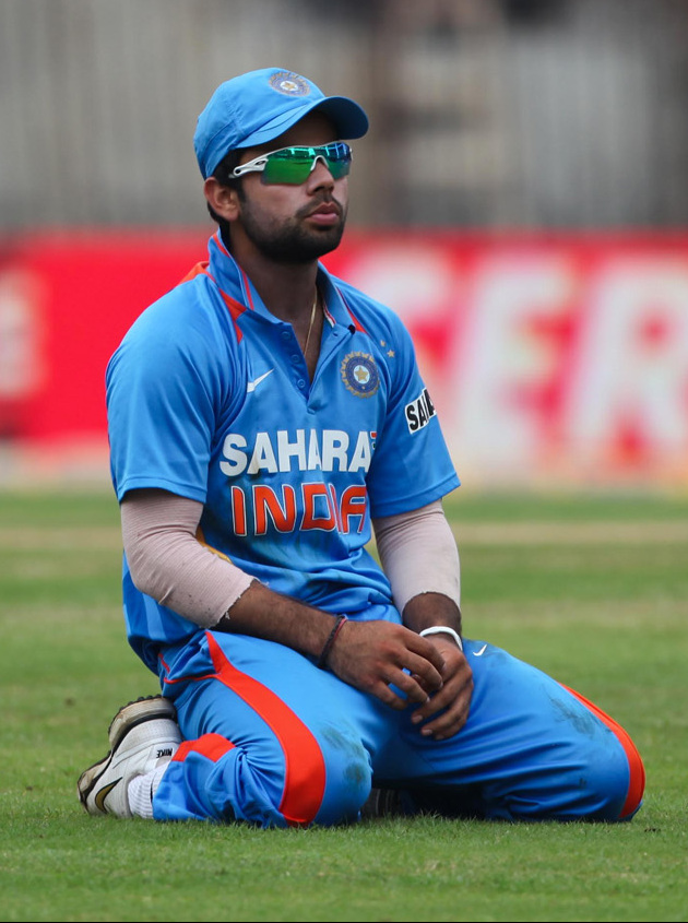 Virat Kohli, India Vs New zealand One day International, 10 December 2010